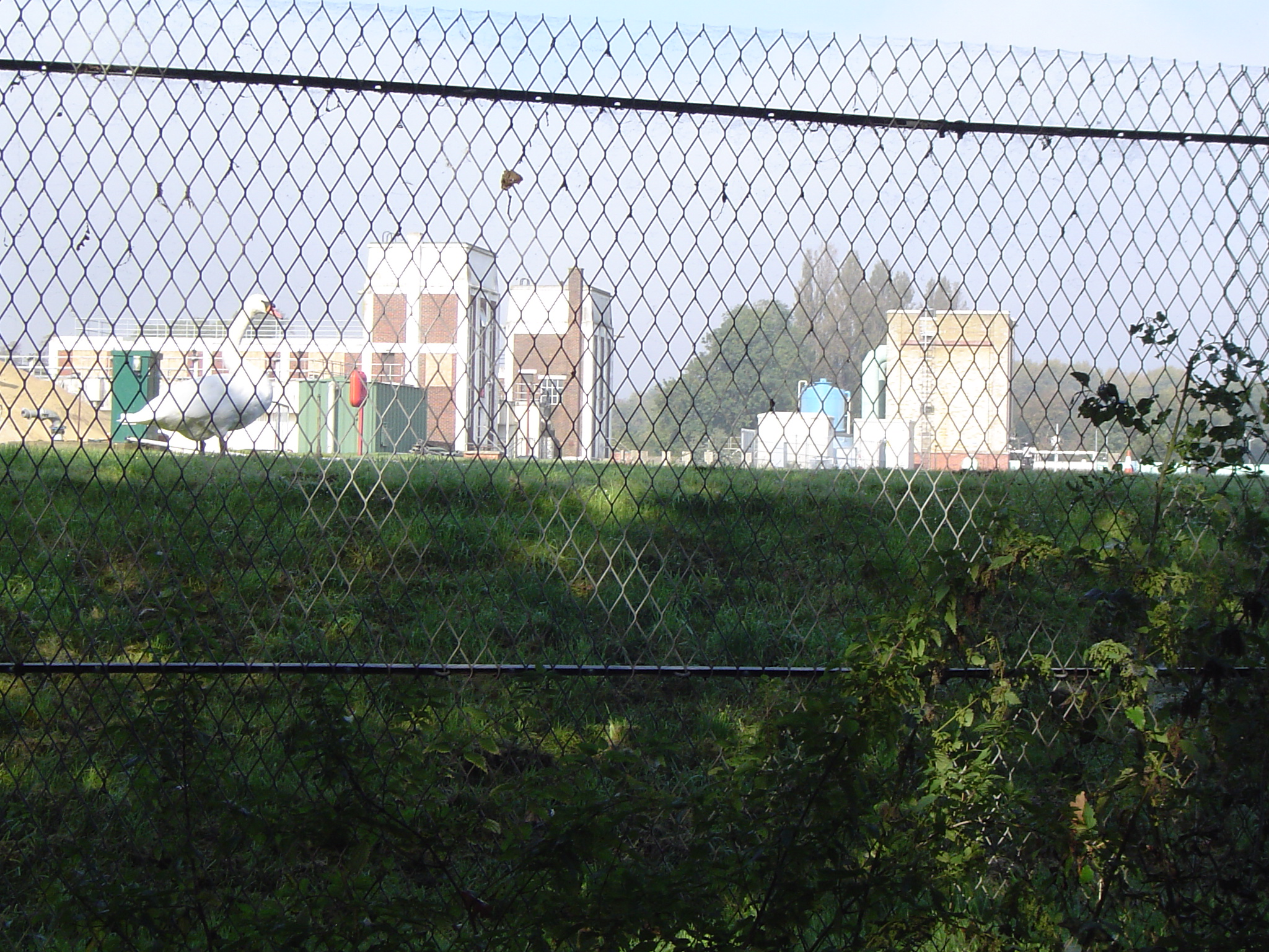 Waterworks buildings on Desborough Island, River Thames, Surrey